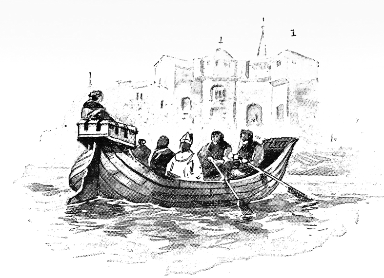 Hansa ships of the XIVth and XVth centuries. Cologne ship of the year 1400. After a Martyrdom of St. Ursula, painted about 1409, and now in the Wallraff-Richartz Museum at Cologne